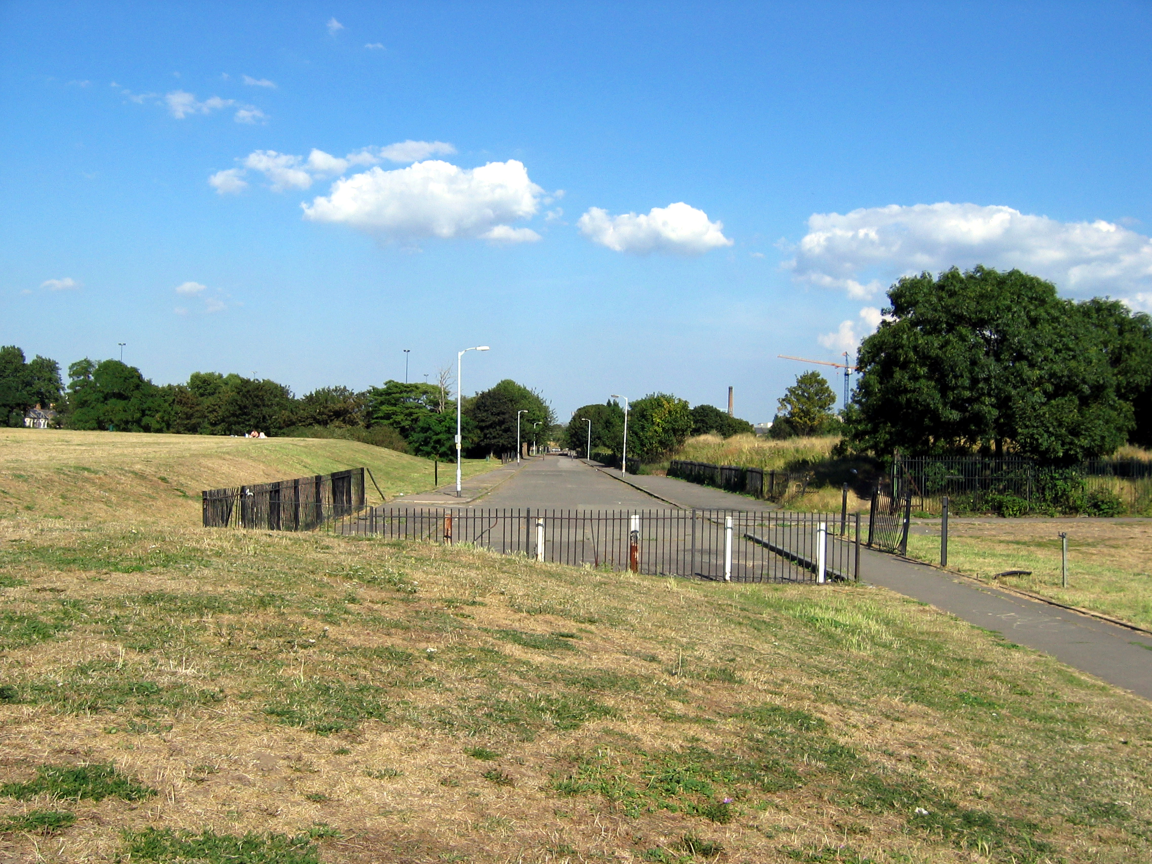 Former road yet to be grassed over, Burgess Park, Southwark, London. (Neate Street SE5)